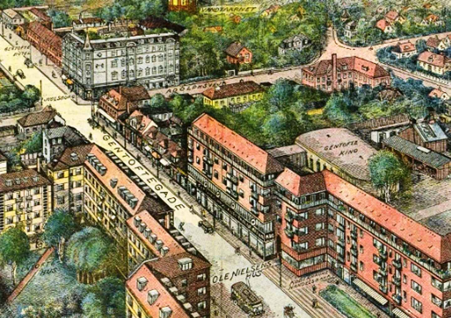 Detail from drawing of Copenhagen, Denmark